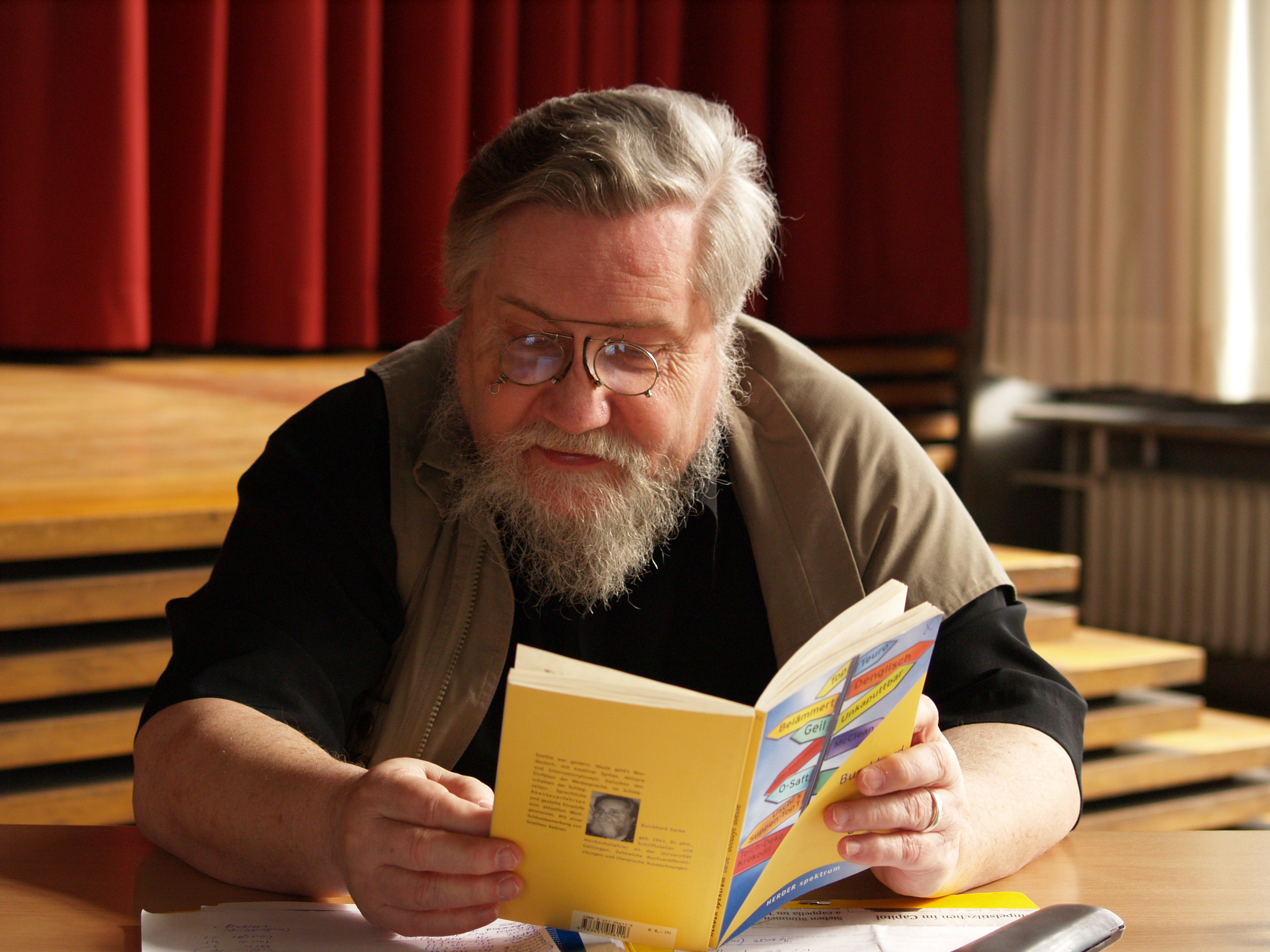 picture of Burckhard Garbe, 20. March 2006, writer